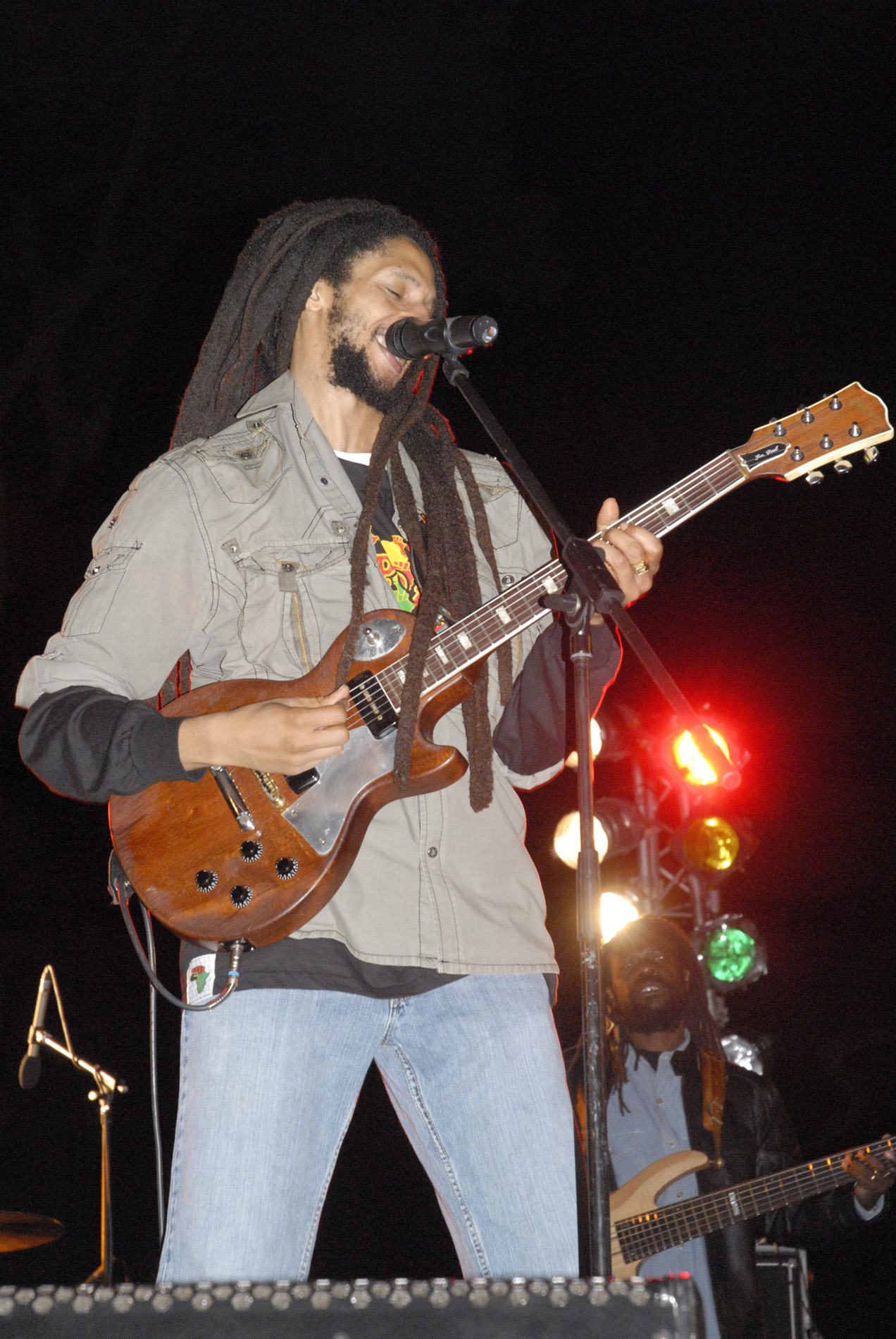 Julian Ricardo Marley, British reggae musician, on stage in Cascais, Portugal.